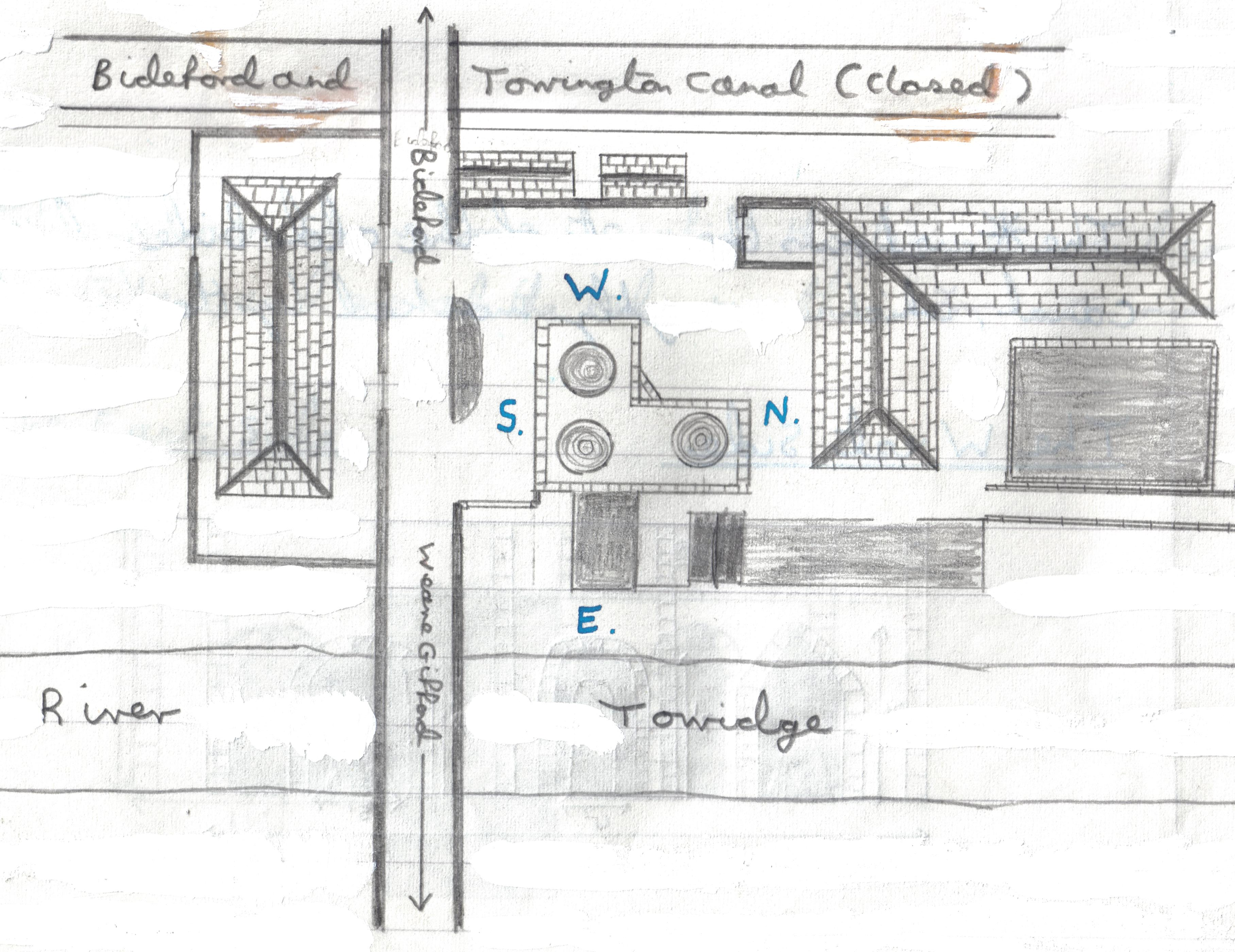 Annery Kiln complex layout, North Devon, England.